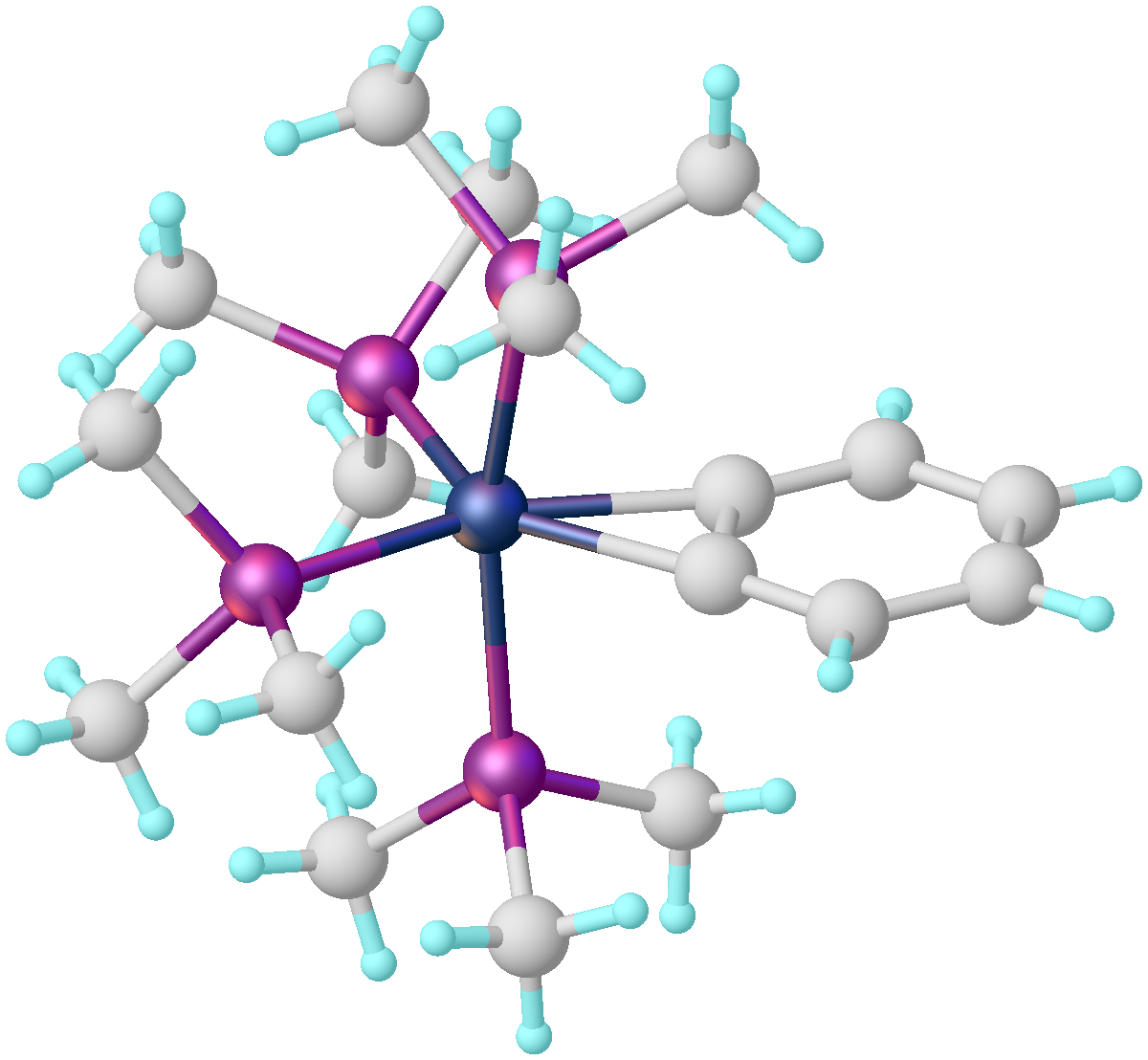 Structure of Ru(C6H4)(PMe3)4